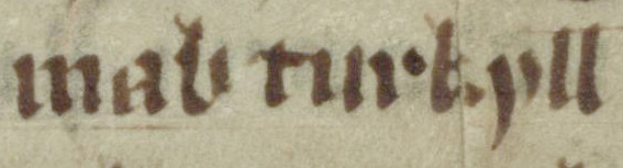 Excerpt from folio 71v of Oxford Jesus College MS 111. The excerpt may refer to Ragnall mac Torcaill, King of Dublin (died 1146).